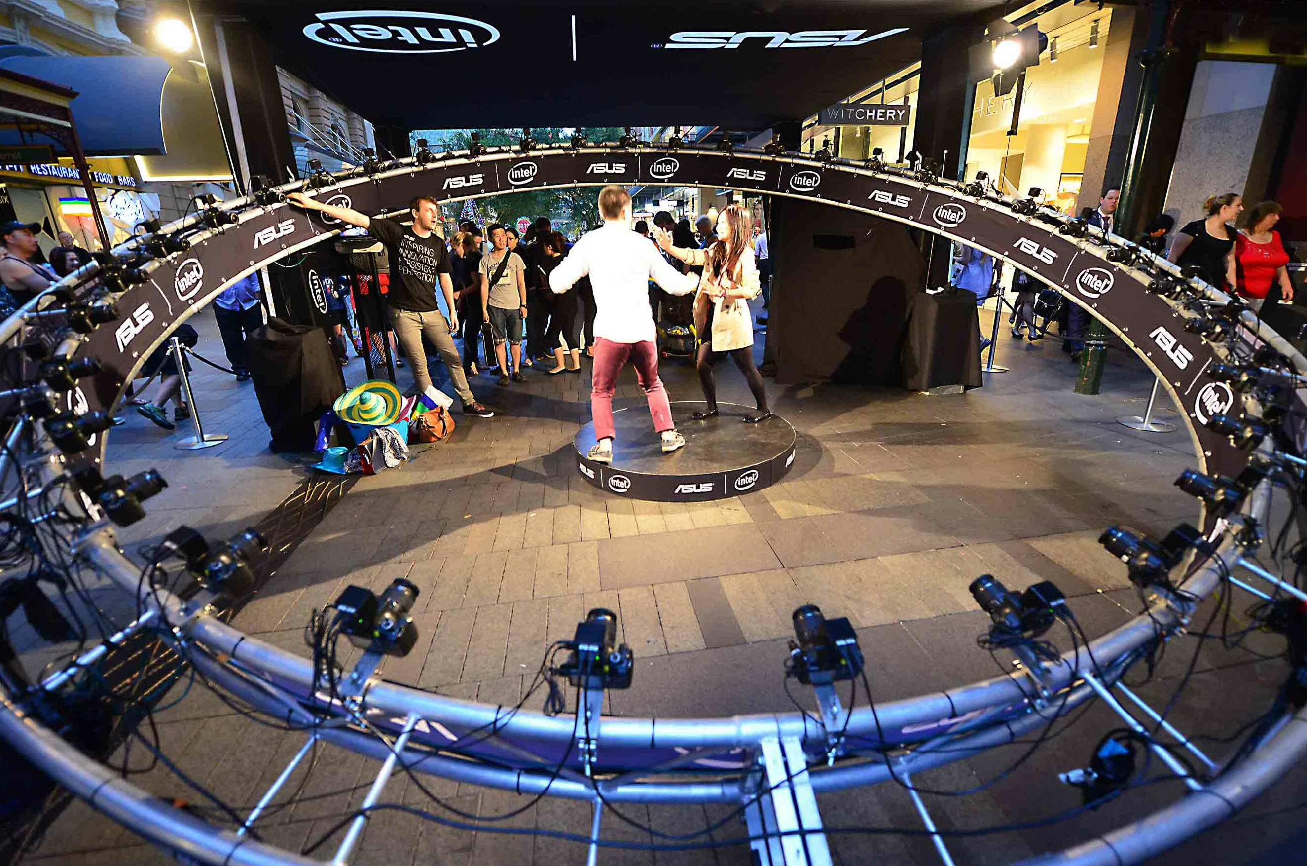 A multiple camera operation with a 360 degree view